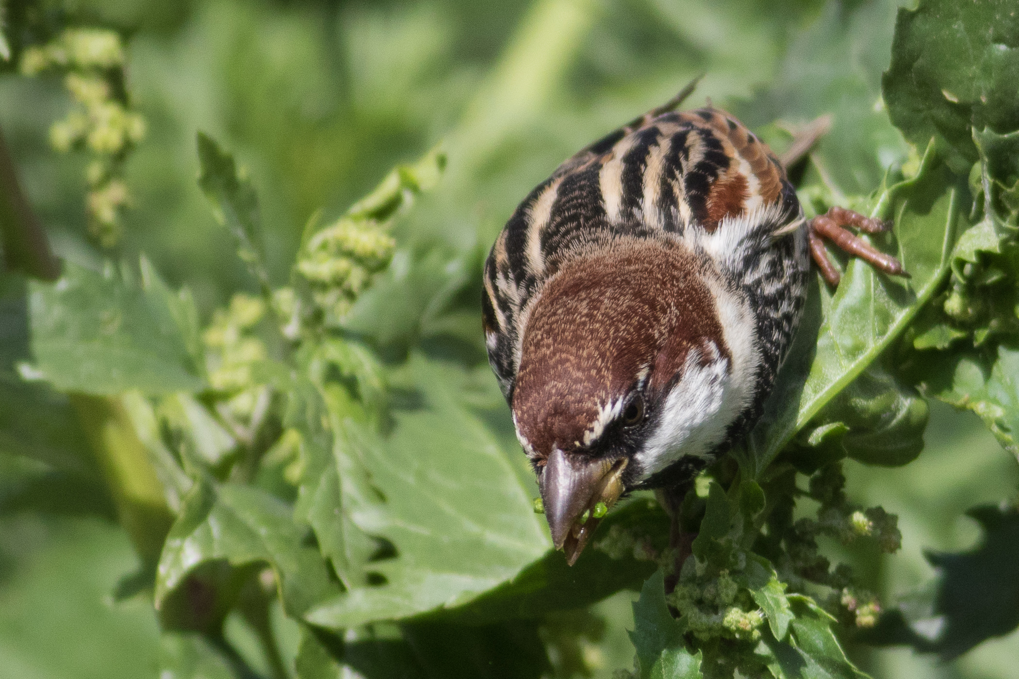 Passer hispaniolensis, Ashkelon National Park, Israel.